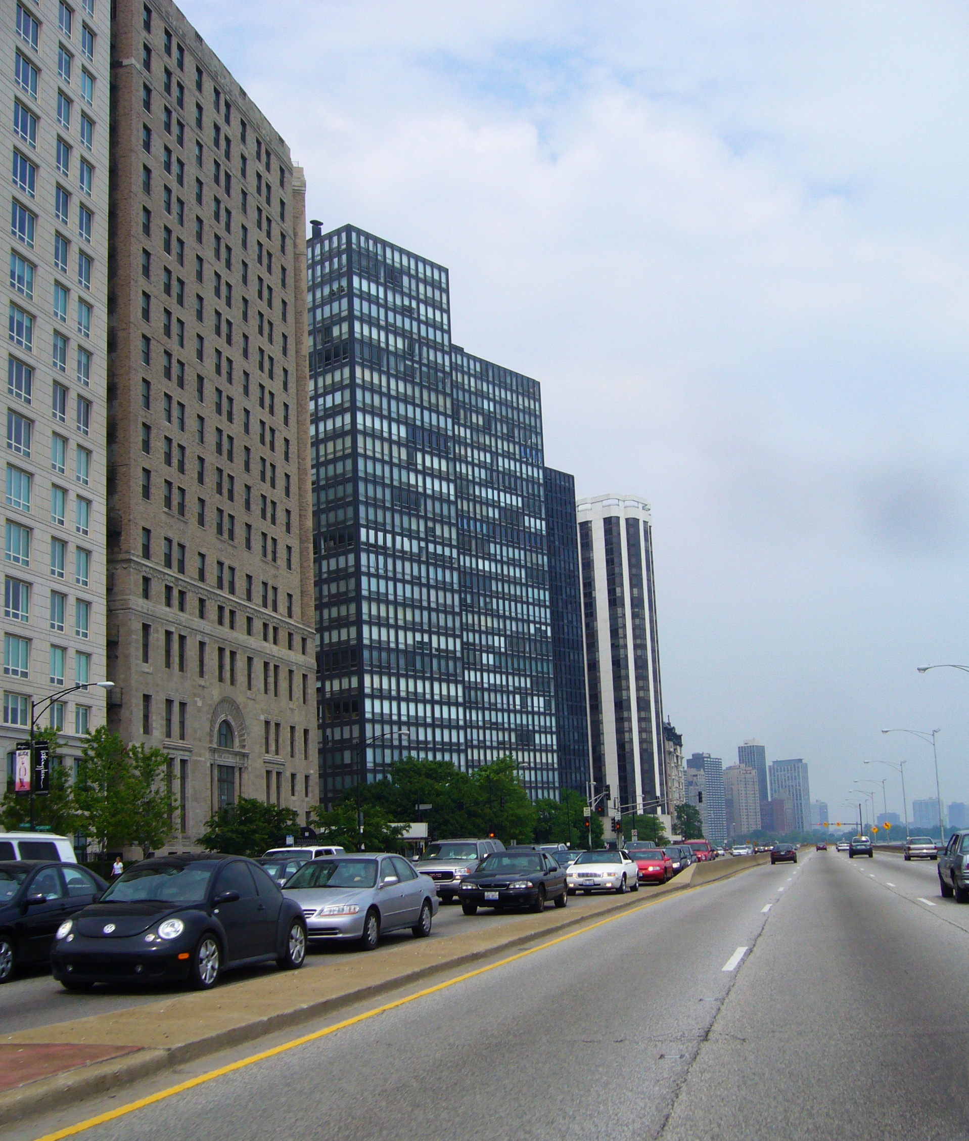 Streeterville portion of Lake Shore Drive